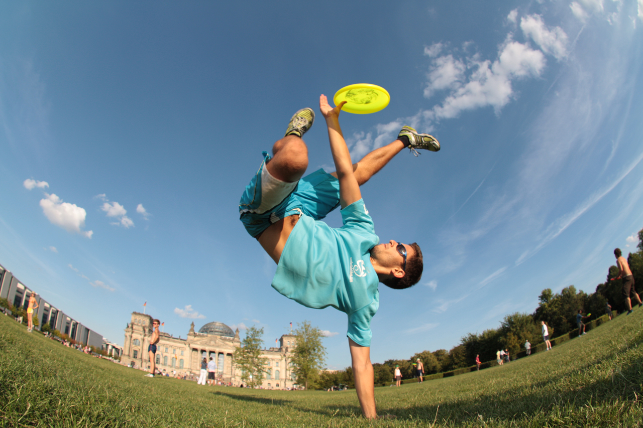 Freestyle Frisbee: handstand catch by Claudio Cigna